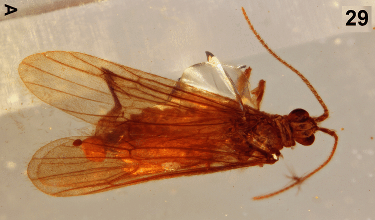 Kinitocelis divisinotata, holotype♀ (B 44): (a)dorsal side of adult